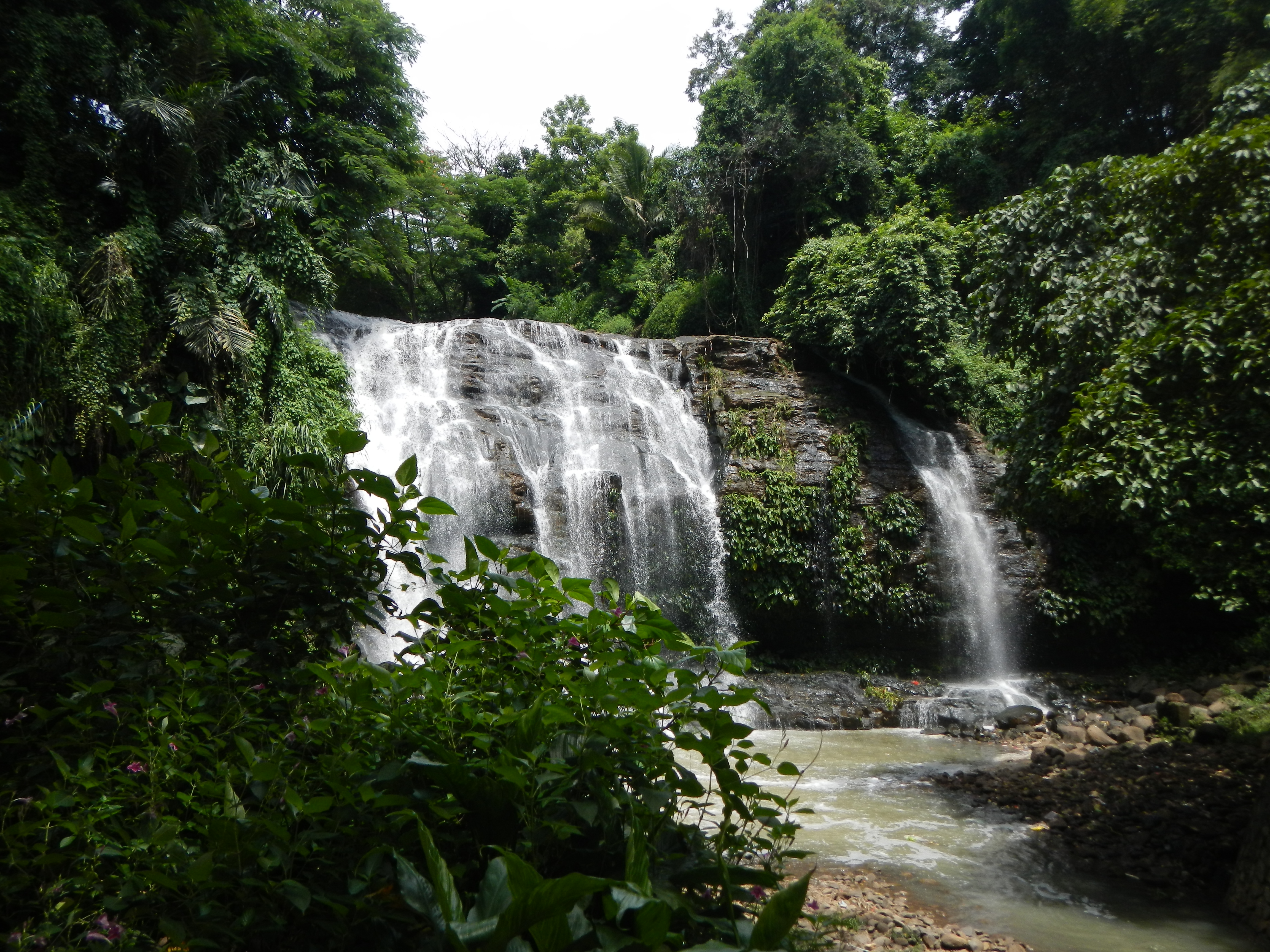 Hinulugang Taktak [1] National Park and Waterfalls, Taktak Rd Antipolo City - is a waterfall [2] in the Philippines found in the province of Rizal on Luzon island. The waterfall area has been designated as a National Park by the Department of Environment and Natural Resources[3] and is one of the two most popular tourist spots in Antipolo City,[4]. Rizal's capital, the other being the Antipolo Cathedral. In 1990, the waterfall has also been proclaimed as a National Historical Shrine under Republic Act No. 6964.[5] [6] [7] Tayo na sa Antipolo, composed in 1929 by Gerry Brandy. It was only in 1990 when it was declared a national historical under pursuant to Republic Act No. 6964. It was previously declared a recreation area through Presidential Proclamation No. 330 dated 15 July 1952. [8] [9] Coordinates: 14°35'40"N 121°10'2"E Hinulugang Taktak gets a P100-M makeover 08/30/2009 Photogs capture beauty, slow destruction of Hinulugang Taktak Thursday, May 10th